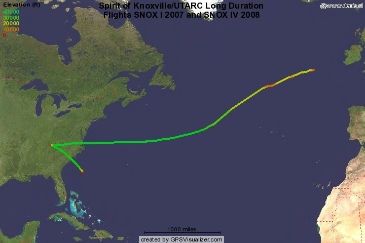 Map of the flight paths of flights I and IV of the Spirit of Knoxville trans-atlantic amateur balloon program, color coded by altitude. SNOX I is the path leading from Knoxville, TN to the southeast. SNOX IV is the path leading from Knoxville, TN to the United Kingdom. SNOX IV set a world record for amateur autonomous balloons, riding the jet stream for 40 hours from launch till landing.